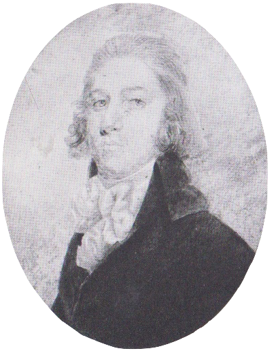 A portrait of First Fleet officer Ralph Clark.